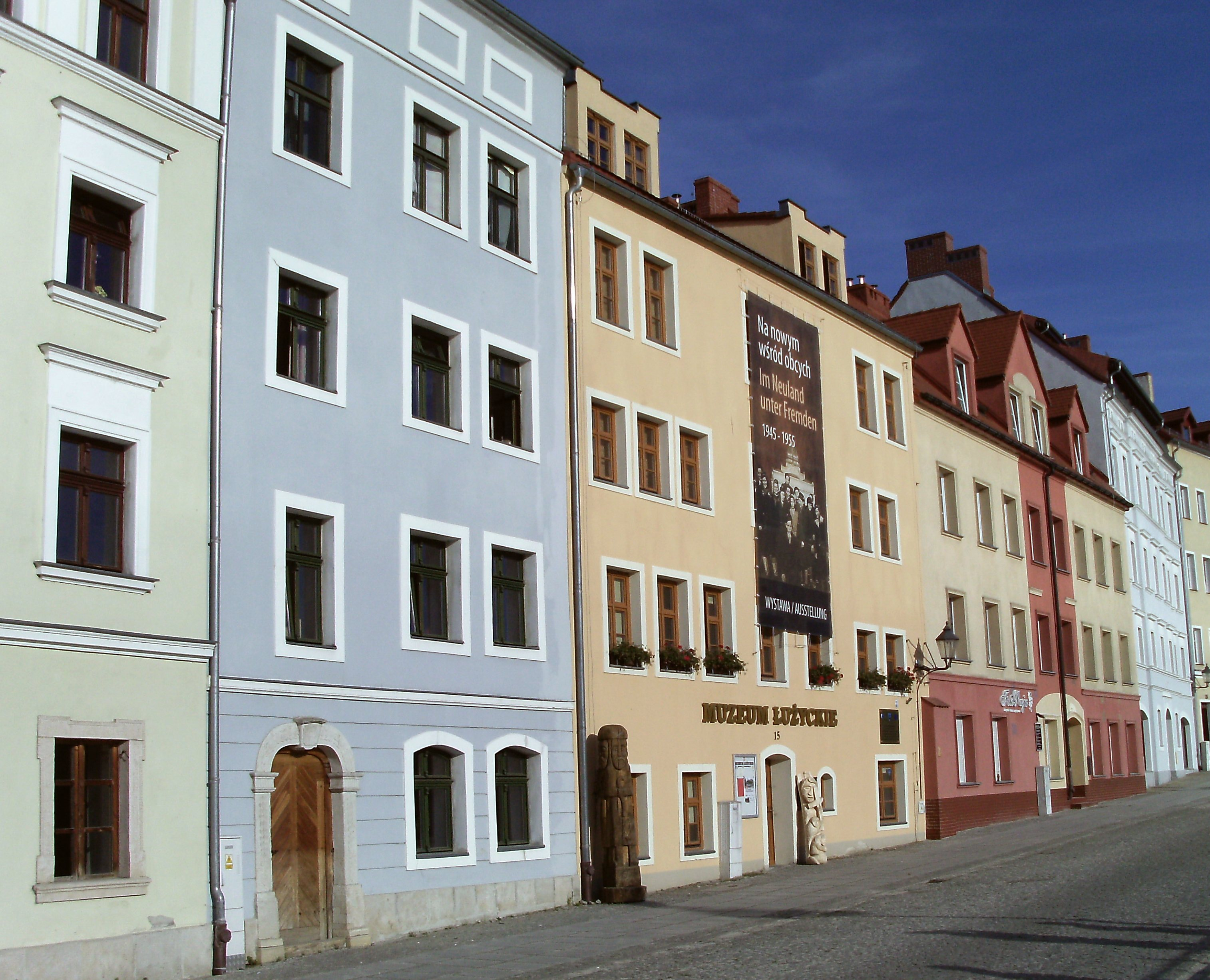 Lusatian Museum in Zgorzelec (Lower Silesian Voivodeship, Poland)